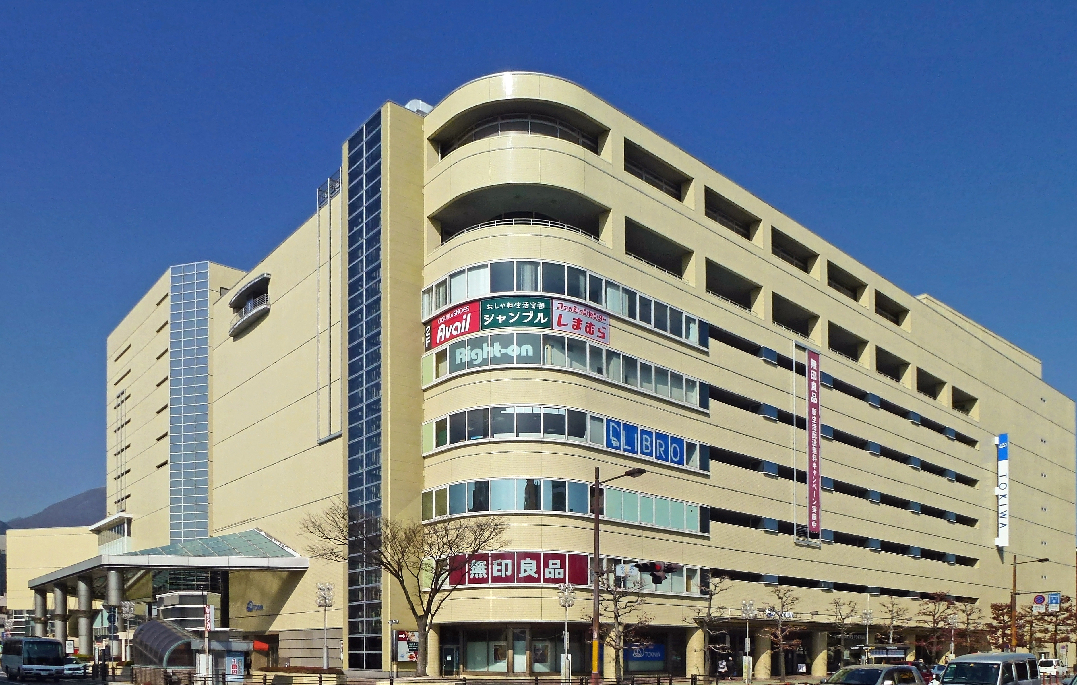 TOKIWA Department Store Beppu Shop, Beppu, Oita prefecture, Japan